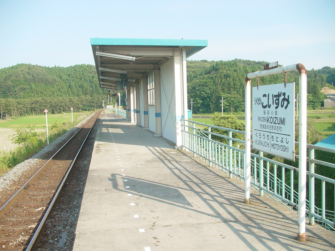 Rikuzen-Koizumi Station is a train station located on the JR Kesennuma Line in Kesennuma, Miyagi, Japan.